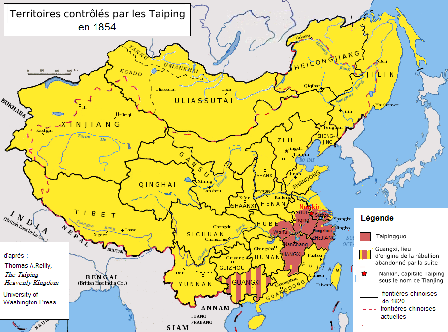 Extent of the Taiping Rebellion (French).